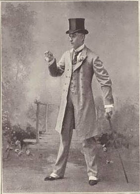 Herbert Sparling in 'Lady Slavey' - photograph in 'The Sketch' 28 November 1894, pg. 4